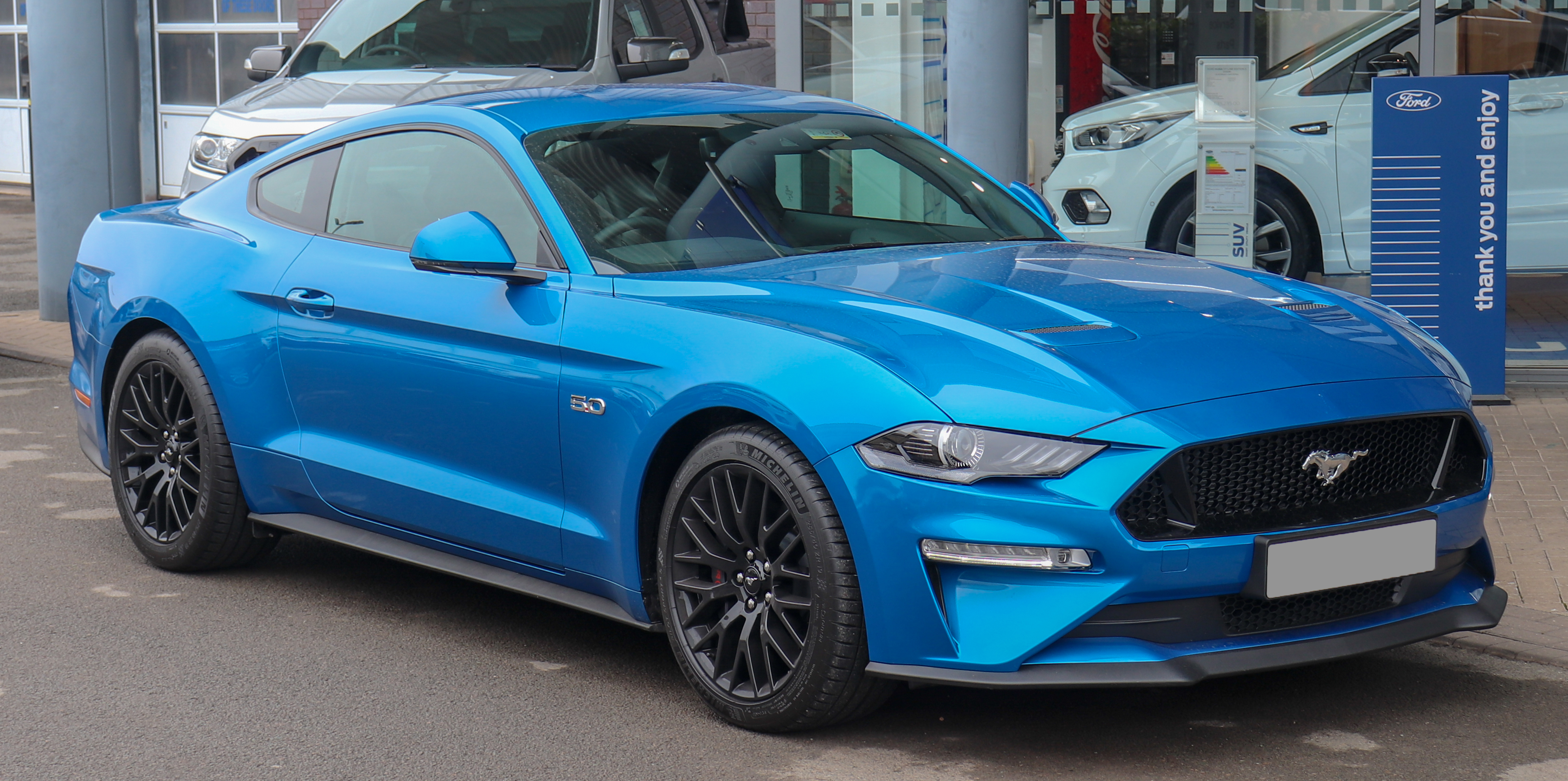 2019 Ford Mustang GT 5.0 facelift Taken in Leamington Spa